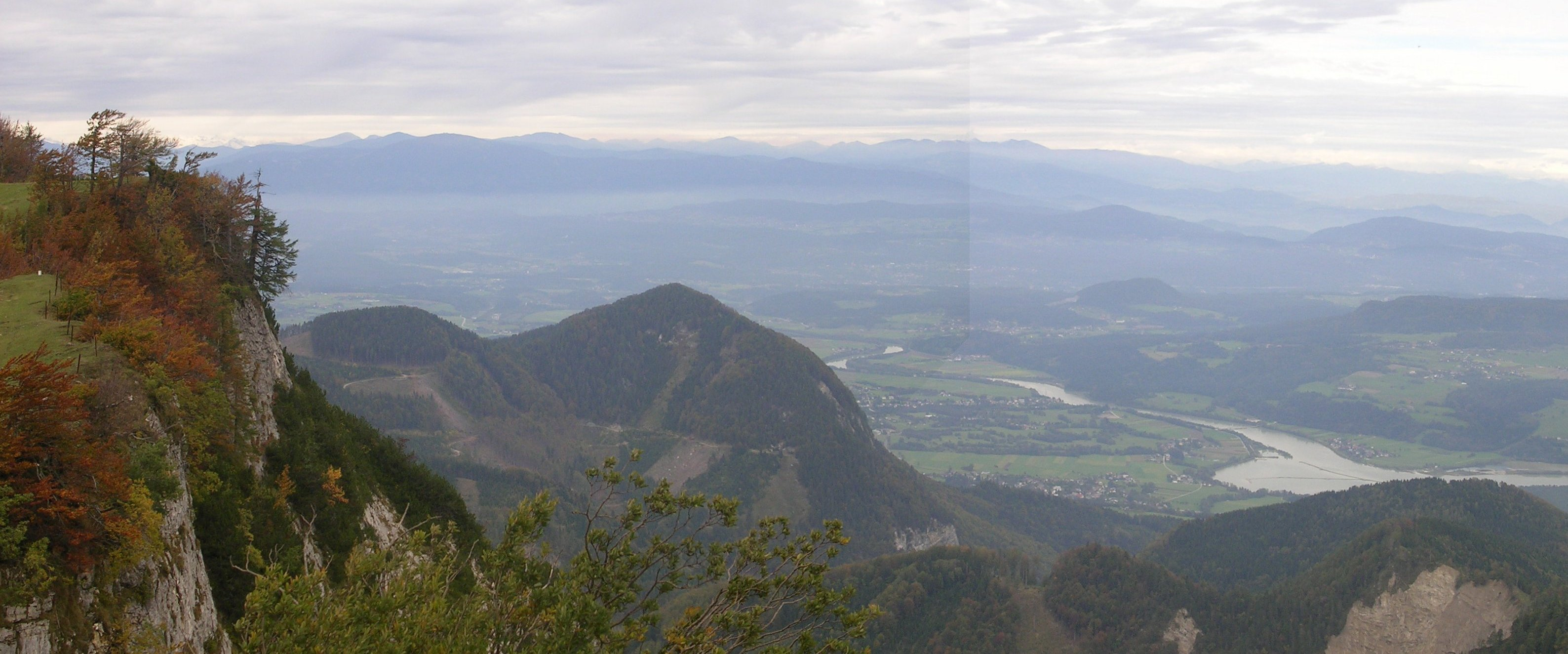 Wiev to Koroška (Kärnten on Austrian side. Panorama created with Hugin, panorama creator.